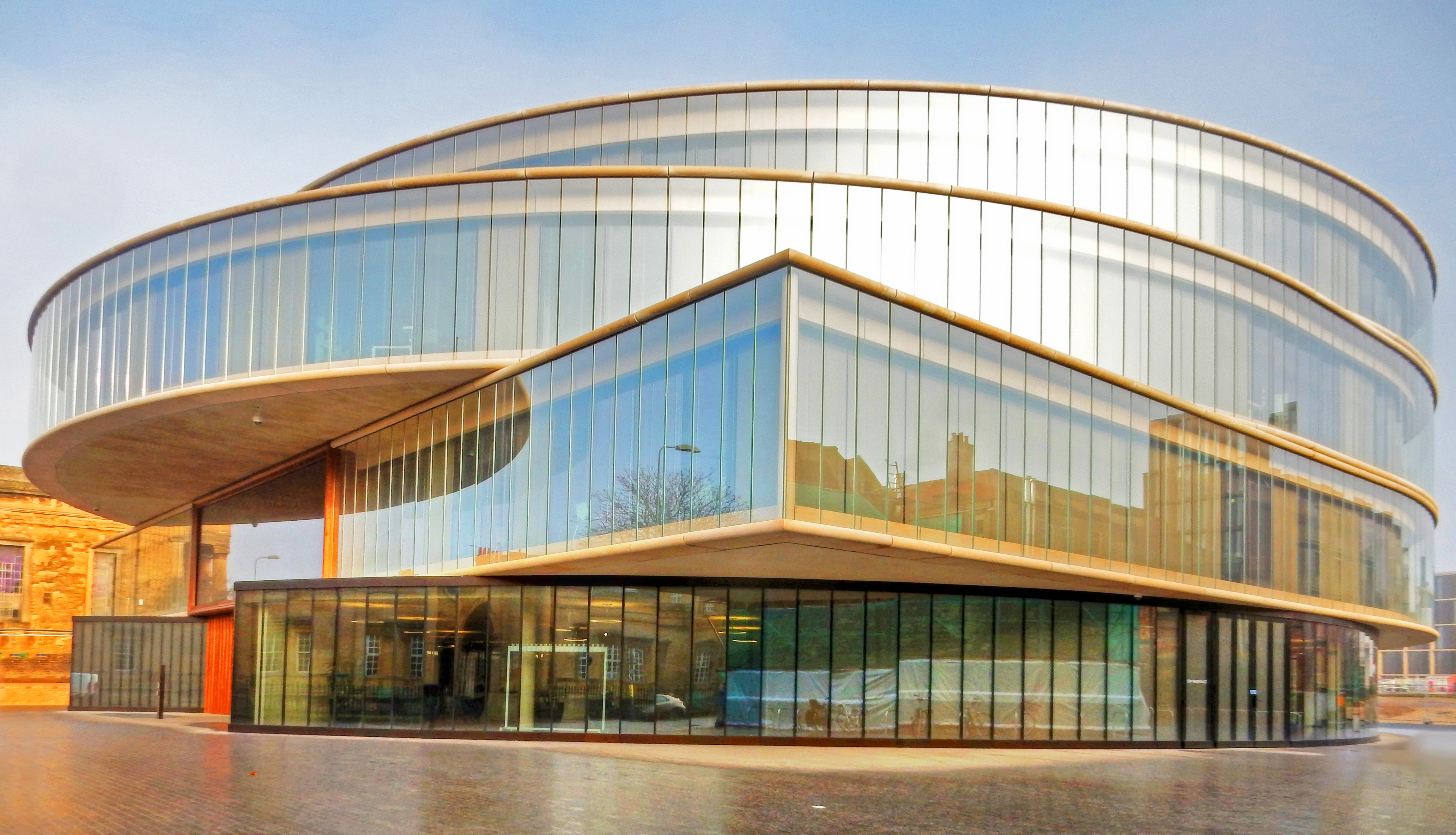 The Blavatnik Spaceship with its shining windows parked in Oxford for a Happy Wednesday! Designed by Herzog & de Meuron and built by Laing O'Rourke, this building is home to the Blavatnik School of Government. Leonard Blavatnik is Britain's richest man. The Ukrainian-born billionaire philanthropist together with the Blavatnik Family Foundation donated £75 million to found the School of Government.